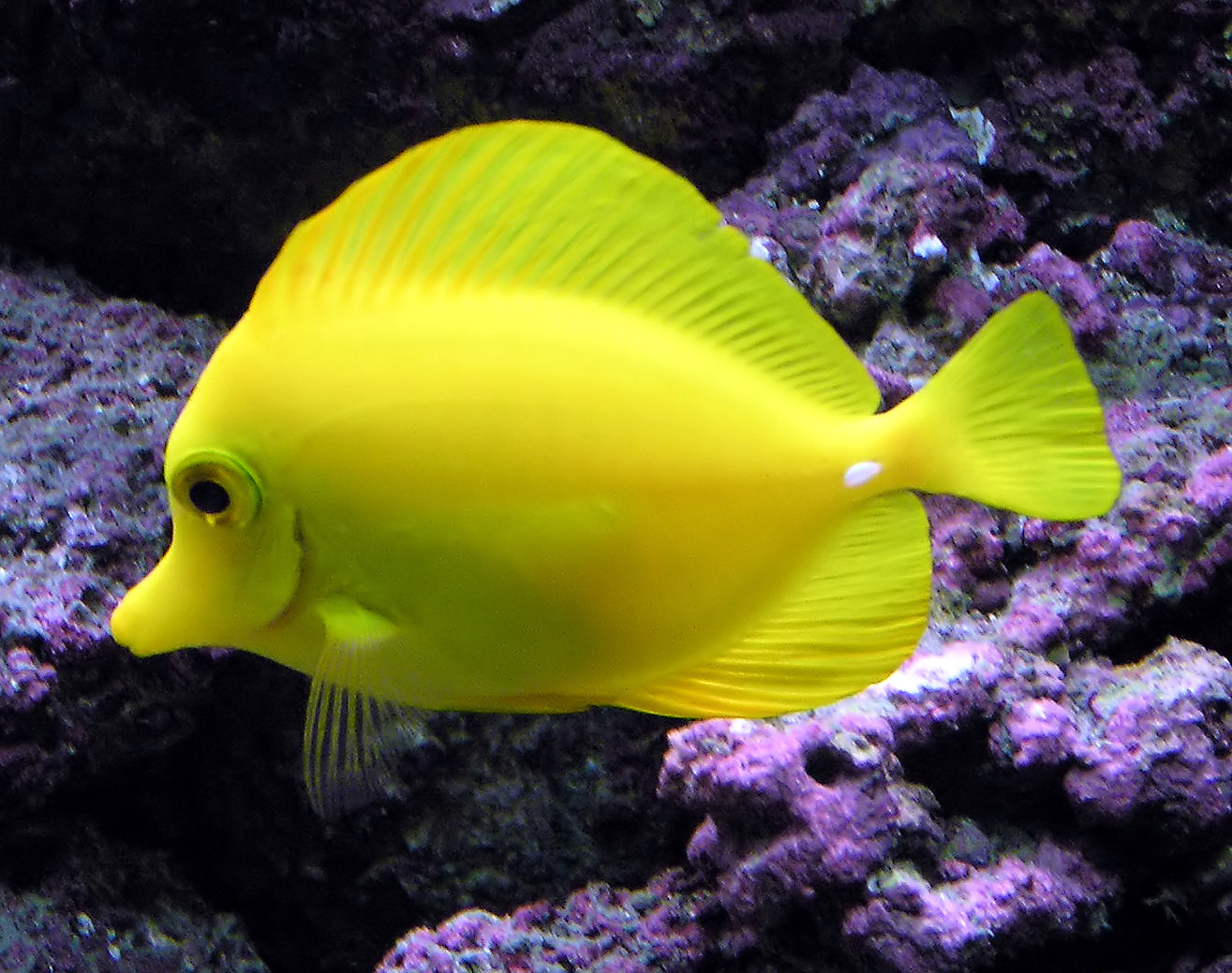 Yellow Tang Zebrasoma flavescens at Bristol Zoo, Bristol, England. This is the character Bubbles in the film Finding Nemo. (The purple colour in the background is genuine, I don't know what it's due to).